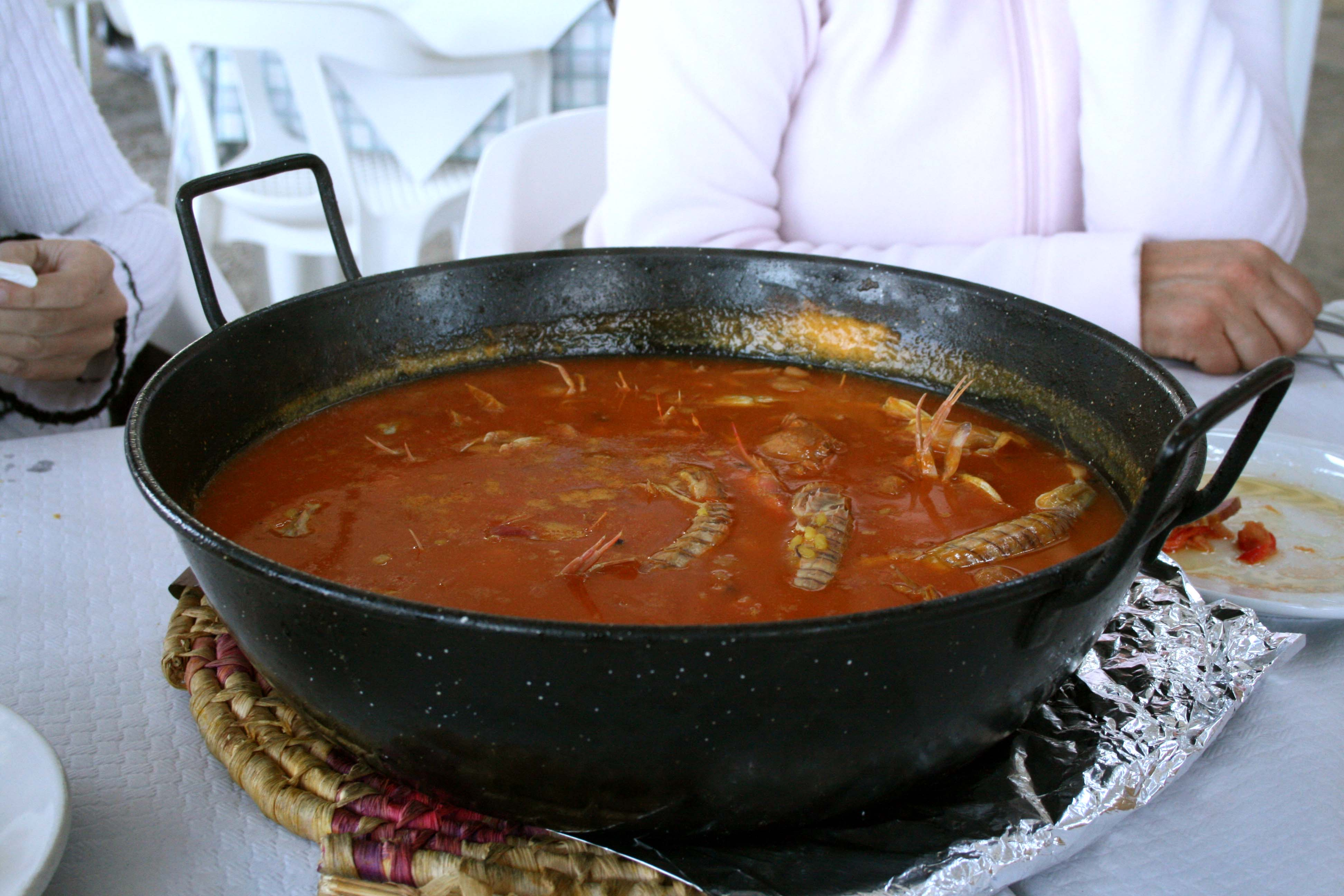 Arroz caldoso (rice with fish broth and shrimp)